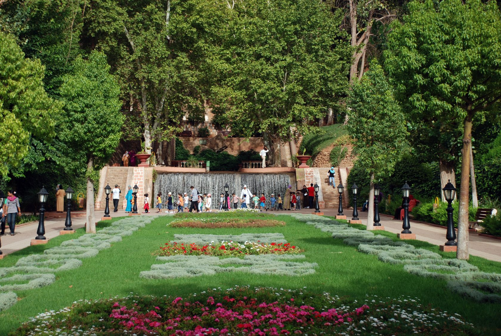 Beni Mellal, Morocco, jardin de Ain Asserdoun